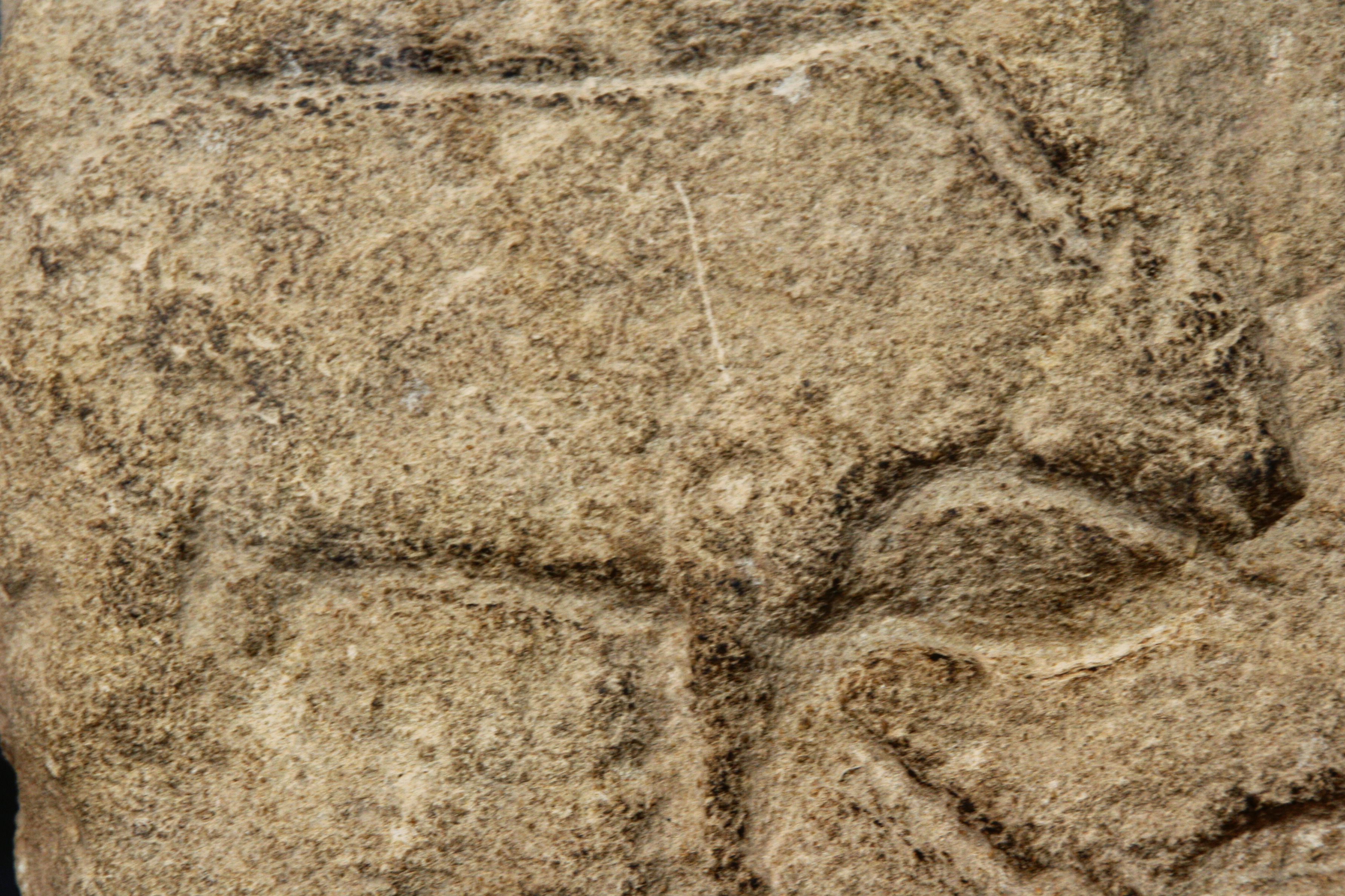 Auroch found in Laugerie Basse rockshelter, Les Eyzies-de-Tayac, Dordogne, France. It can be viewed in the National Prehistory Museum in Les Eyzies-de-Tayac.